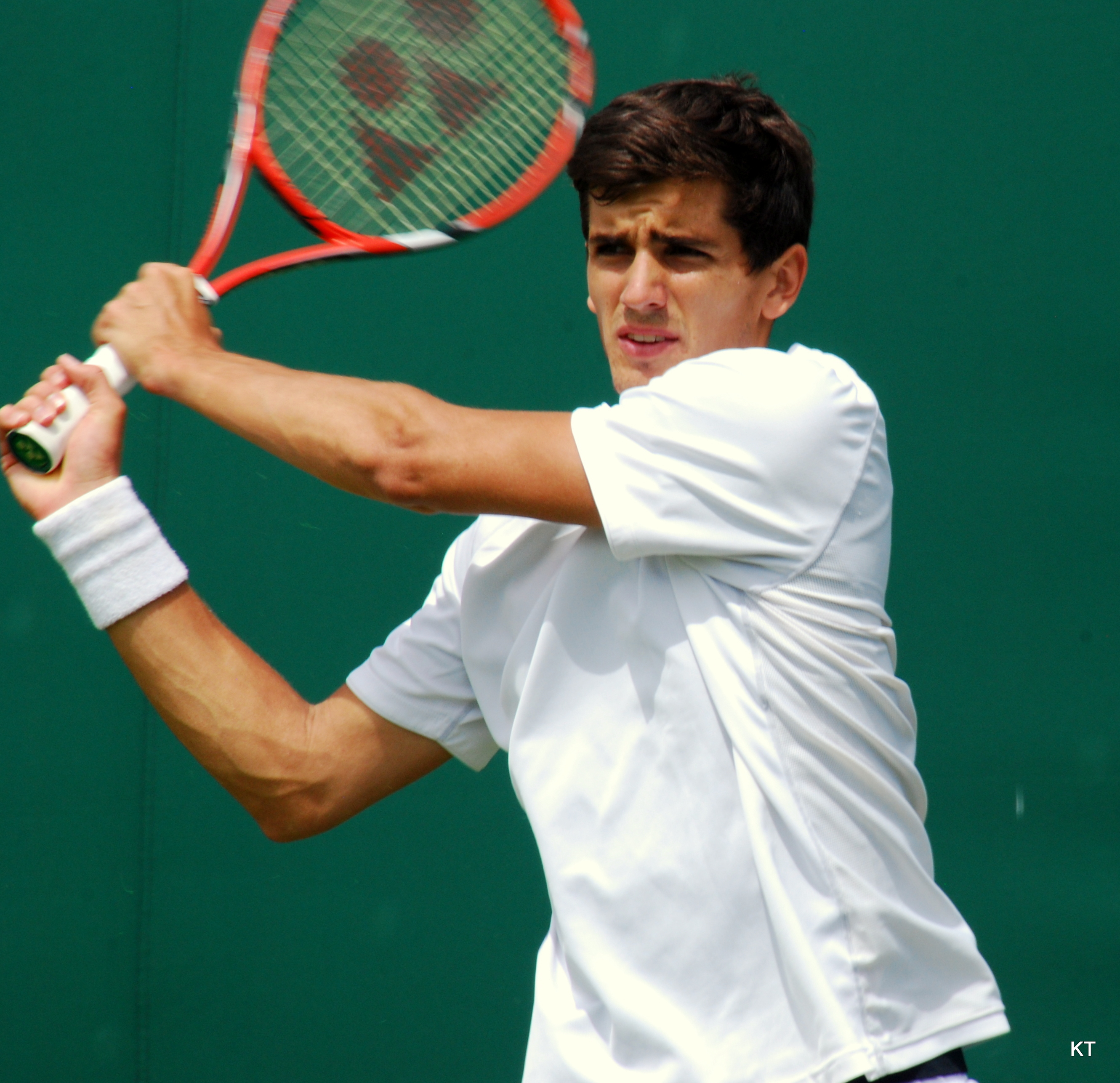 First round of Wimbledon qualifying, 16th June 2014.